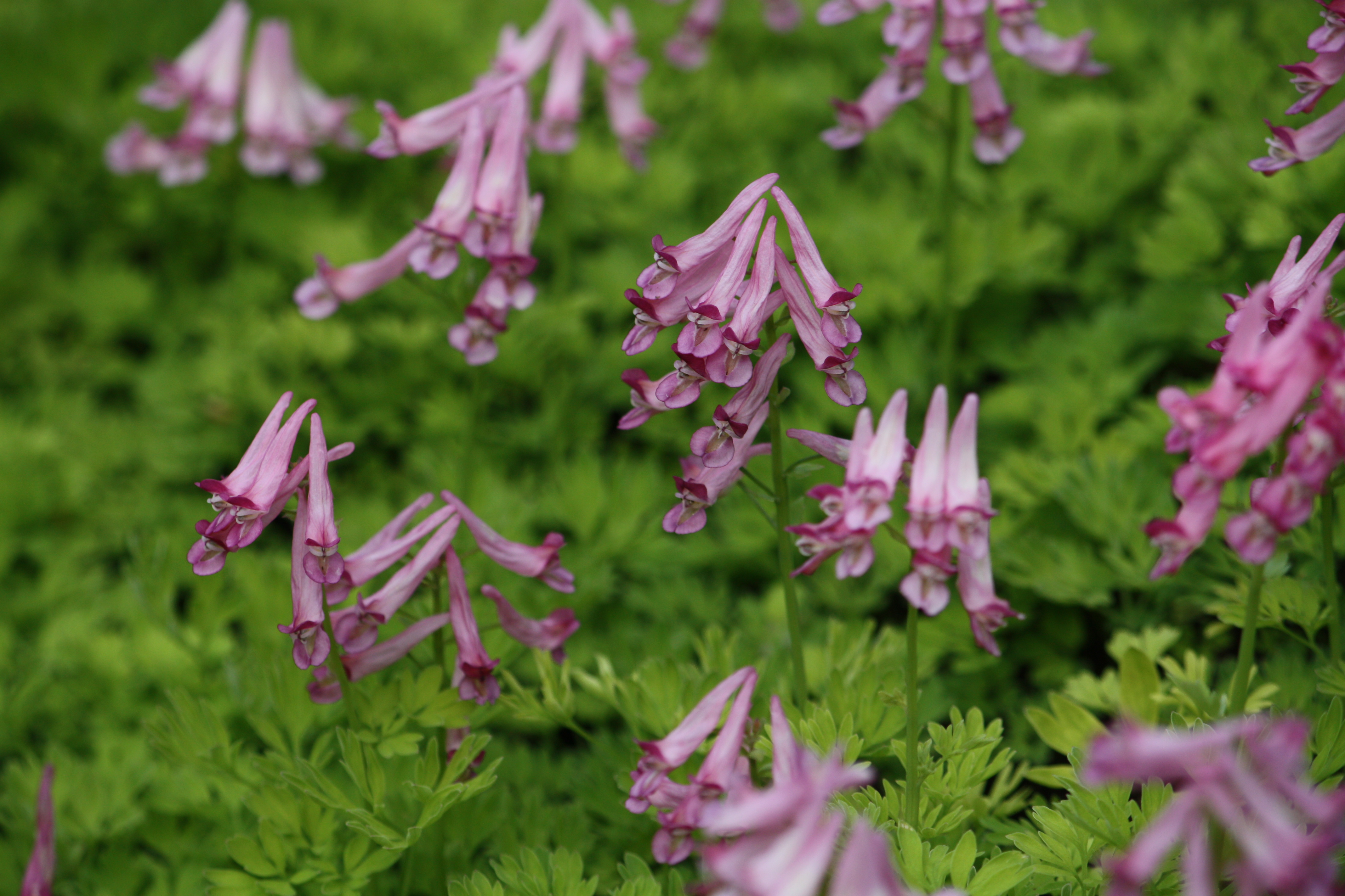 Corydalis buschii - Botanical Garden of the University of Tartu, Estonia